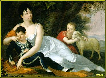 Archduchess Maria Leopoldine of Austria (1776-1848), wife of Count Arco, with his sons.